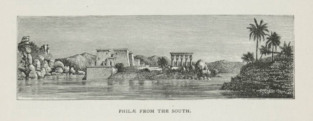 Panoramic view of an island with pylon on left and lone row of five columns on the right.